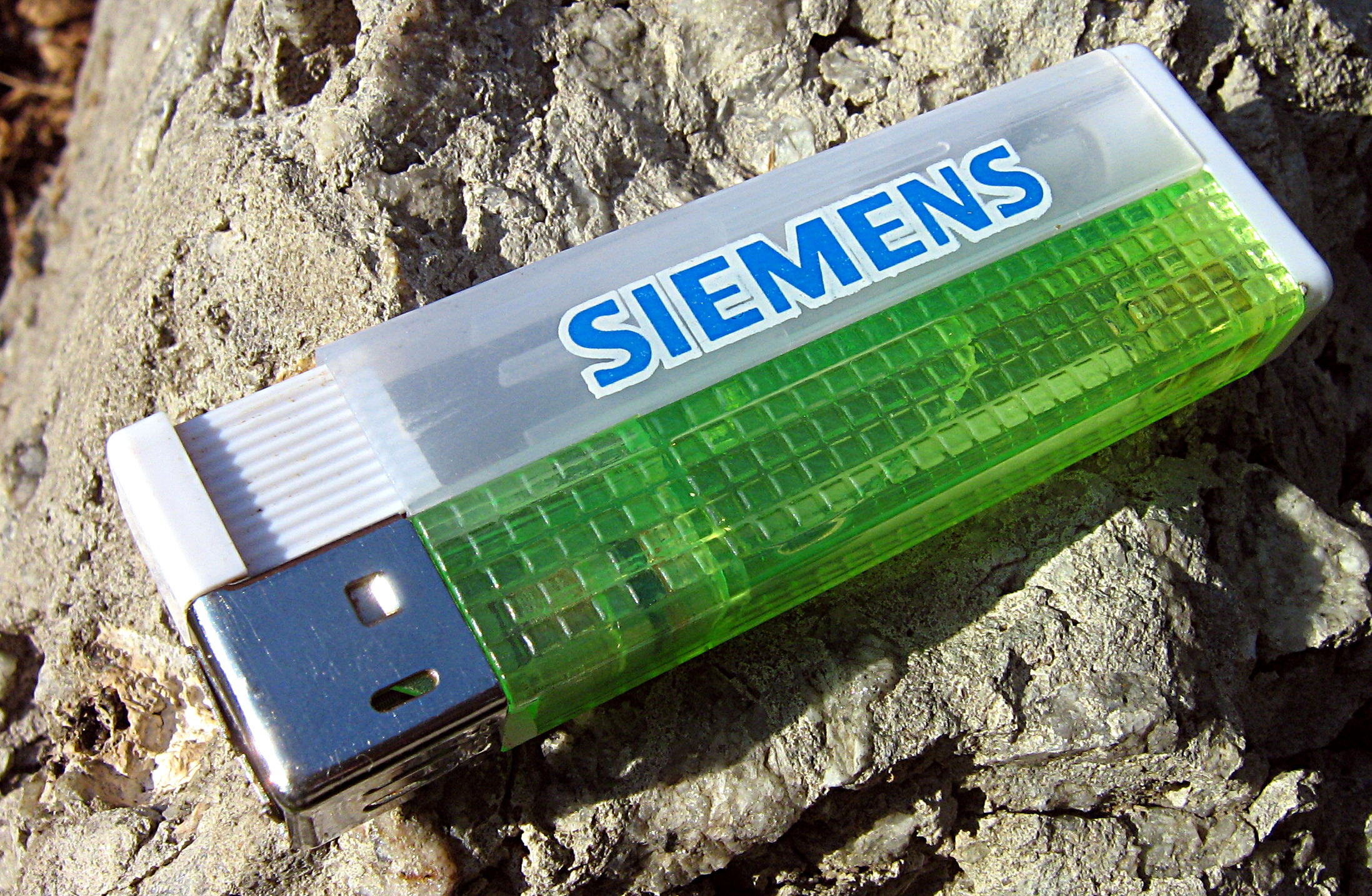 Siemens lighter with LED.